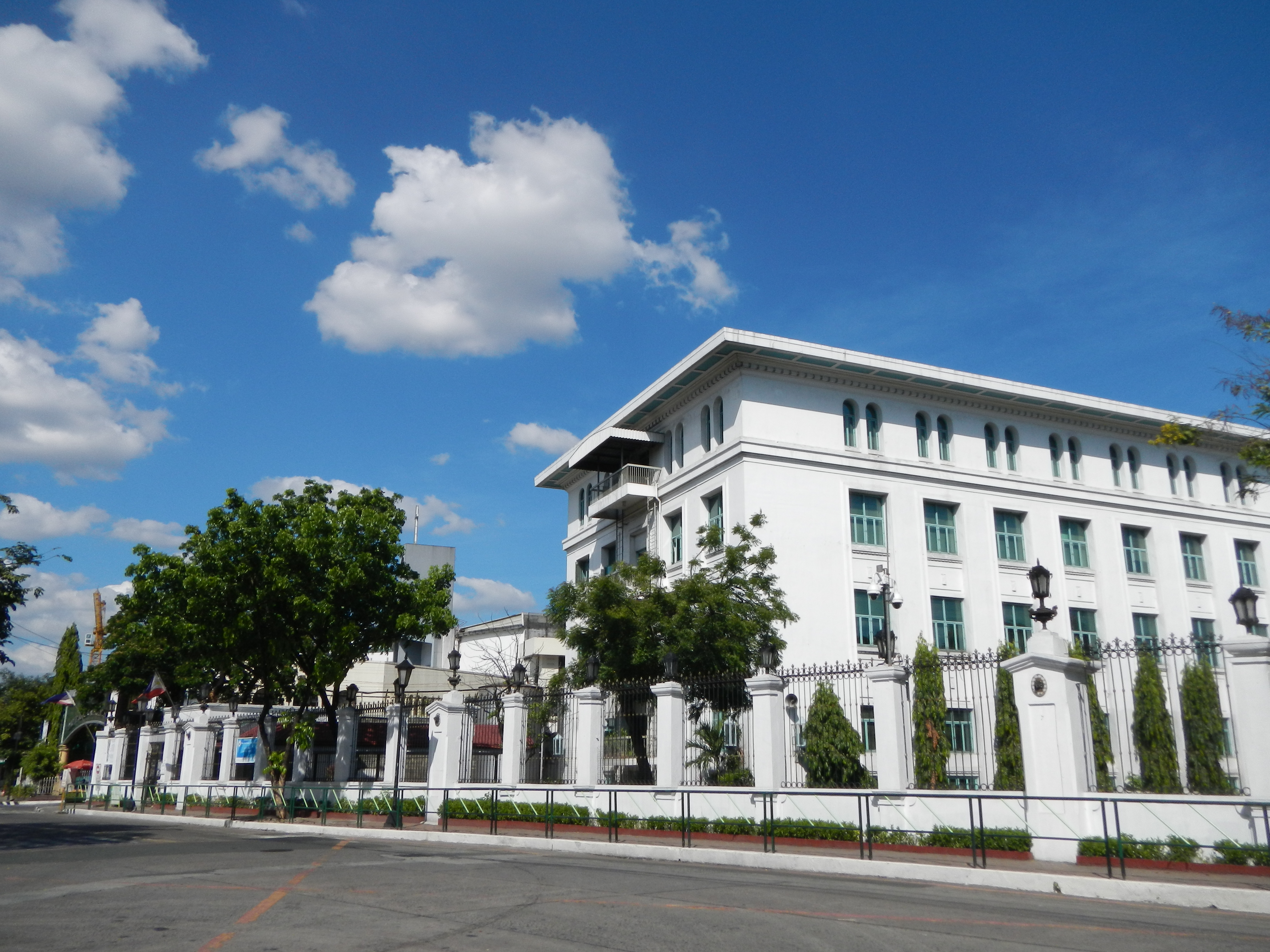 Malacañang Palace[1] [2] (Filipino: Palasyo ng Malakanyang), officially Malacañan Palace or simply "the Palace", is the official residence, but not the actual residence, and principal workplace of the President of the Philippines. It is located along Pasig River, Governors-General Francis Burton Harrison and Dwight F. Davis built an executive building, the Kalayaan Hall, which was later transformed into a museum. Since 1986 when Cory Aquino became president, only one president, Gloria Macapagal-Arroyo, has actually lived in the palace proper, though all lived on the grounds or nearby.[3]Coordinates: 14°35'38"N 120°59'39"E [4] 1000 José P. Laurel Street, San Miguel, Manila[5]Malacañang Palace and Museum Site of the presidency of the Philippines. The Malacañang Museum is situated in historic Kalayaan Hall – the old Executive Building built in 1920 lat: 14.5935506821, long: 120.995094299 [6] New Malacañang Facebook page seeks pics from Palace visitors[7]